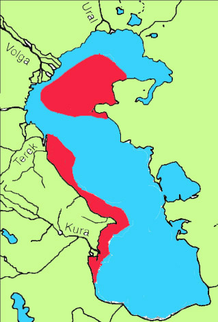 The range of the Baer pugolovka (Benthophilus baeri)